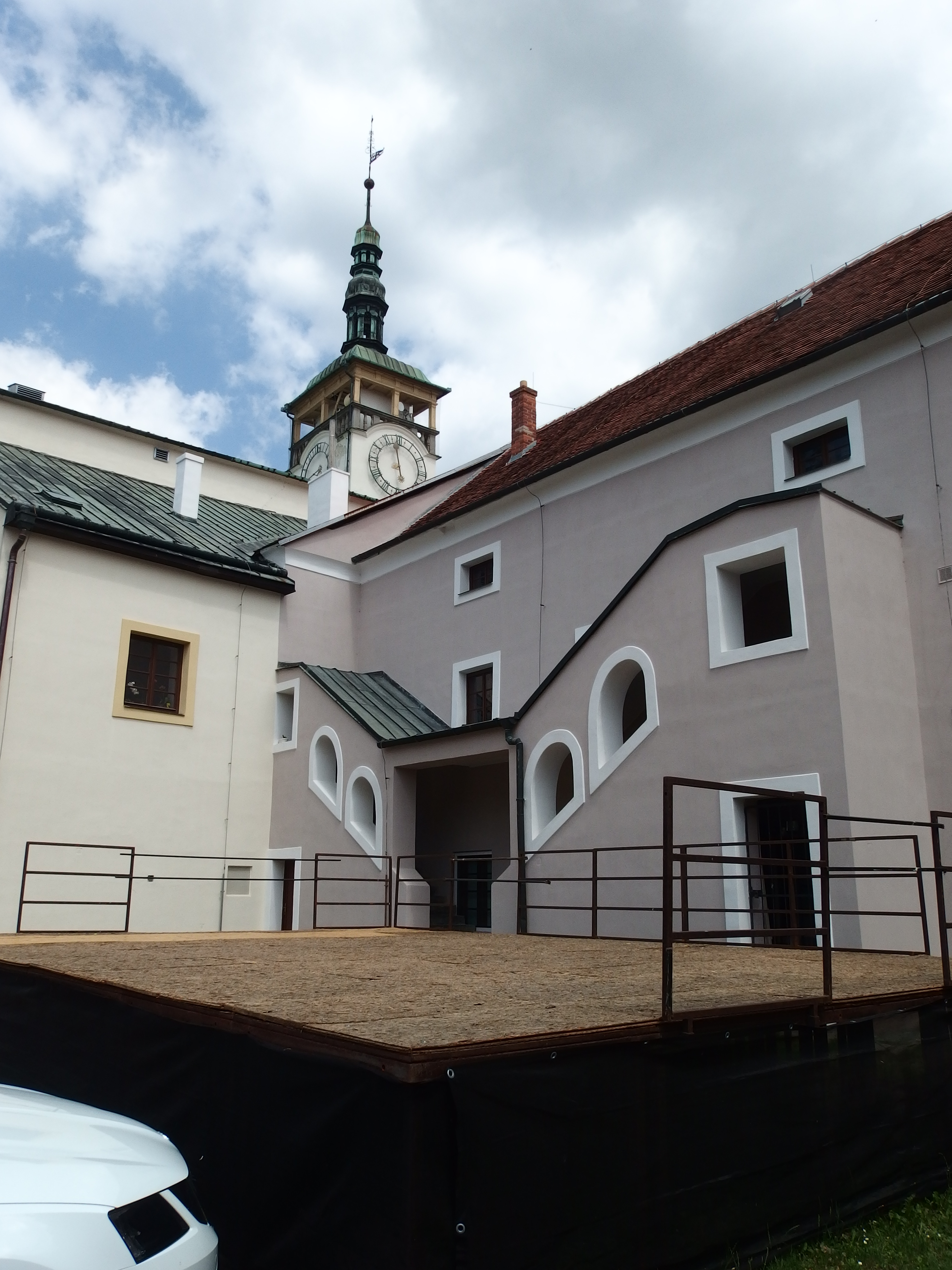 Kroměříž, Czech Republic.